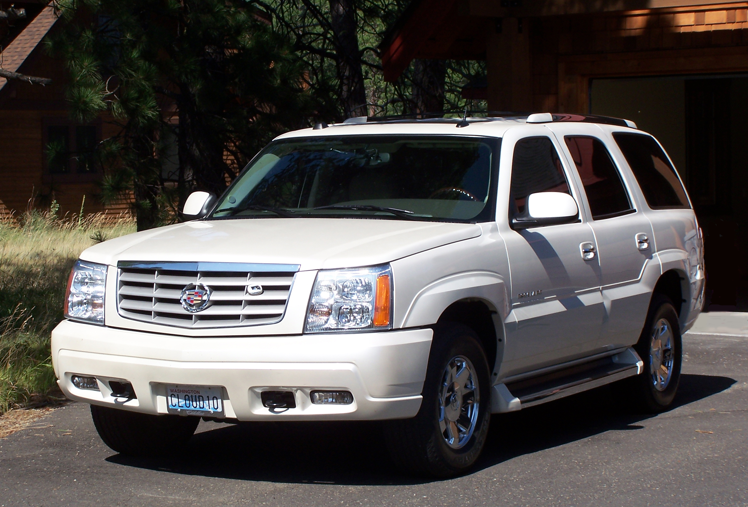 2005 Cadillac Escalade (front view)